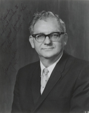 E. S. Johnny Walker, US Representative from New Mexico